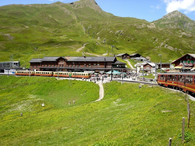 Jungfraubahnen, Kleine Scheidegg